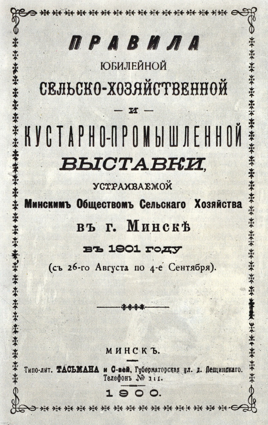 The cover of the book "Rules of the jubilee agricultural and handicraft industrial exhibition, organized by the Minsk society of agriculture" (Minsk city, Russian Empire), 1900 AD